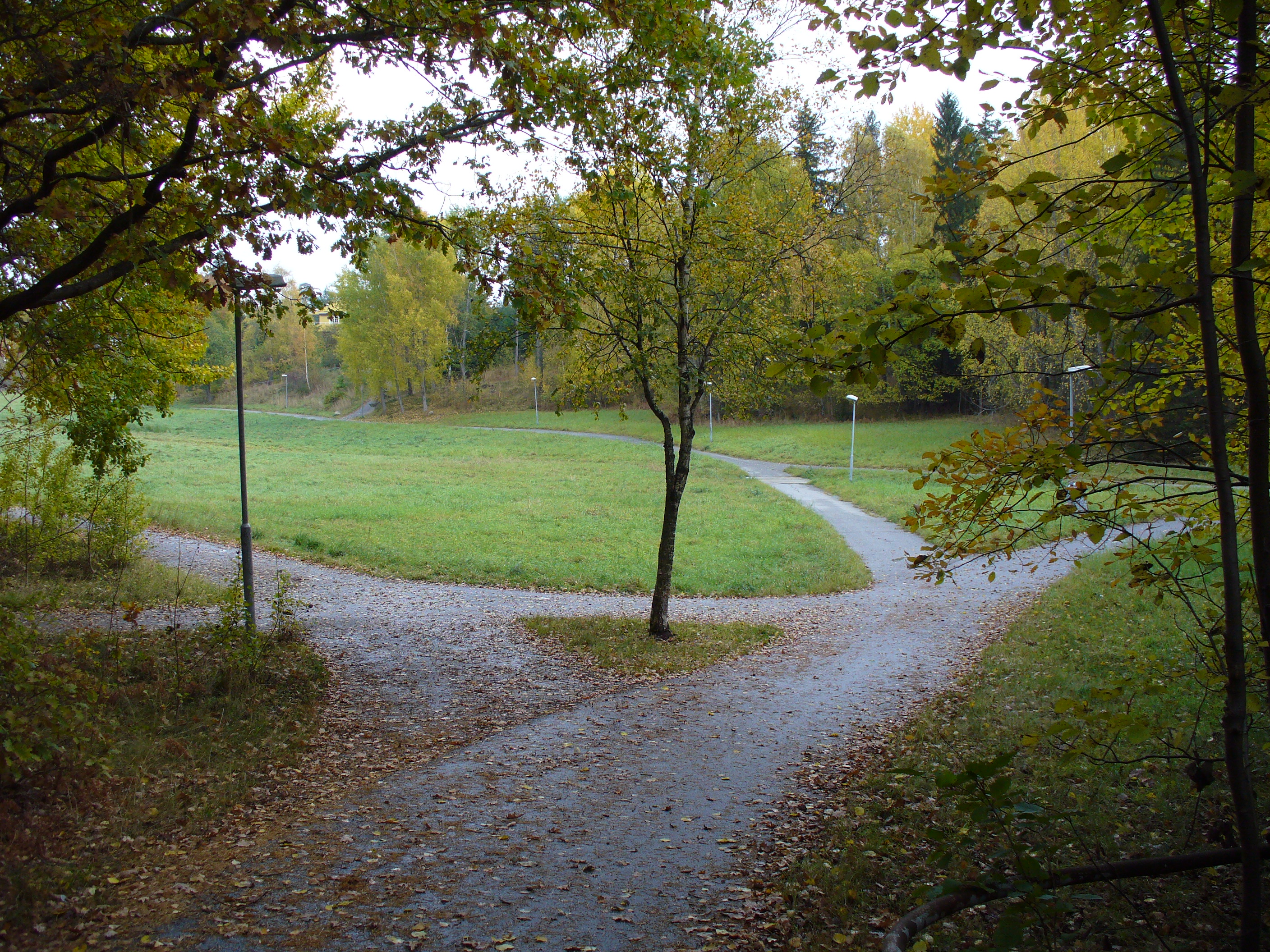 Meadow at Rudboda, Lidingö, Sweden